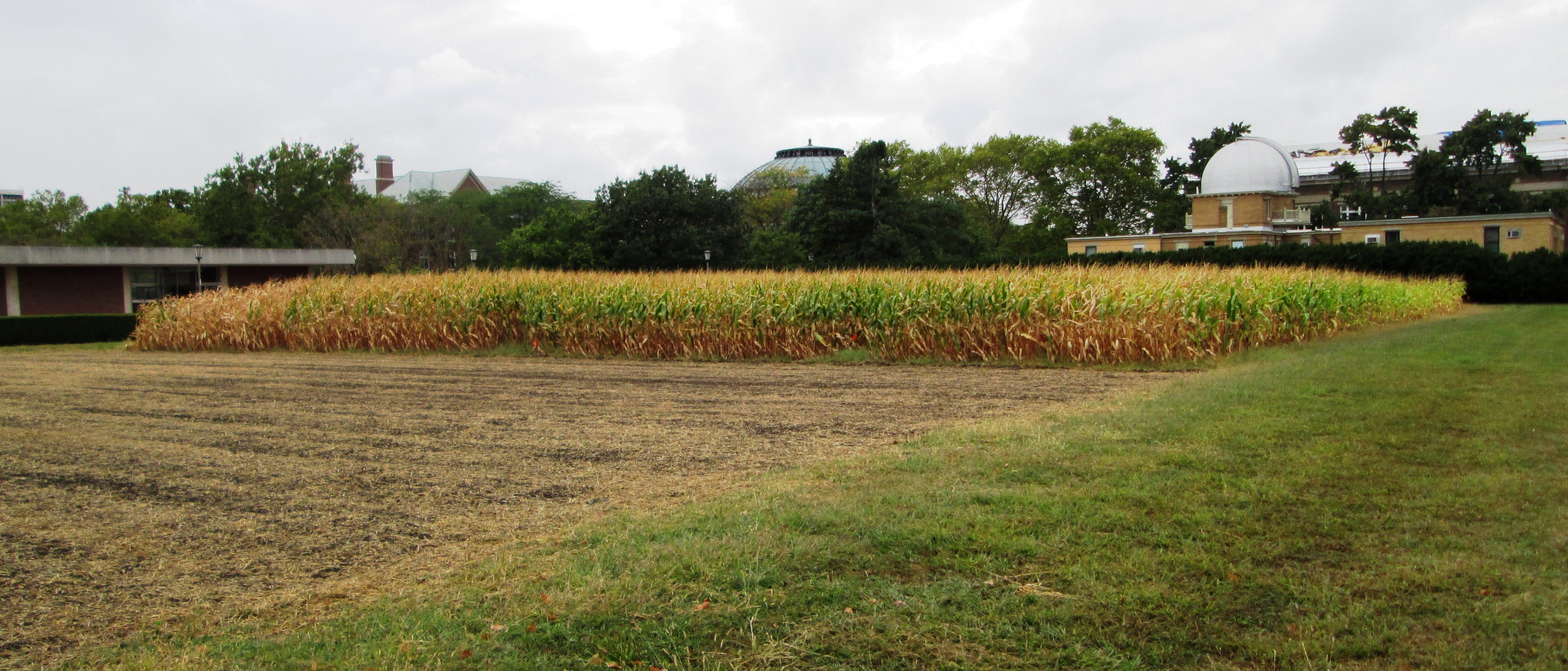 The Morrow Plots is an experimental corn field at the University of Illinois at Urbana-Champaign. It was established in 1876 and is the oldest such field in the United States and the second oldest in the world. The plots continues to be used today, although with three plots instead of the original ten. The results of the experiments which were carried out at the Moorow Plots showed that "soil quality is a vital component of agricultural productivity", and that the "use of science and technology ... increased crop productivity over four-fold." (Source: Historical markers at the site)